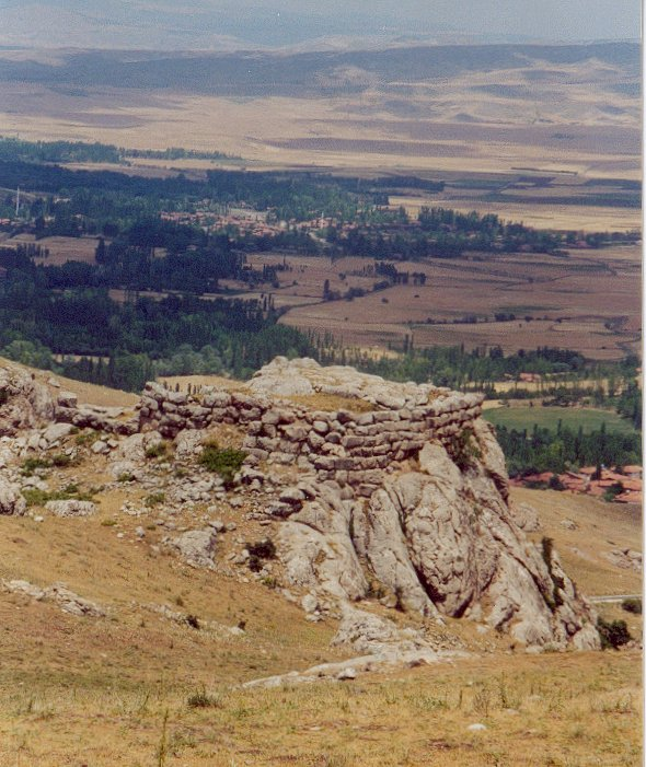 The building complex Yenicekale at Hattusa, Turkey.